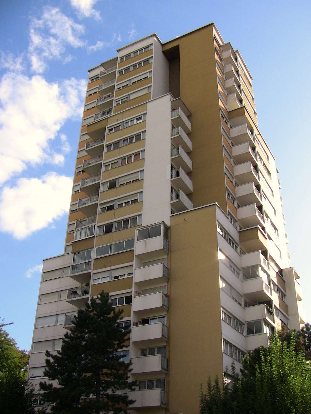 The tower of Planoise located in Besançon (Doubs, France)